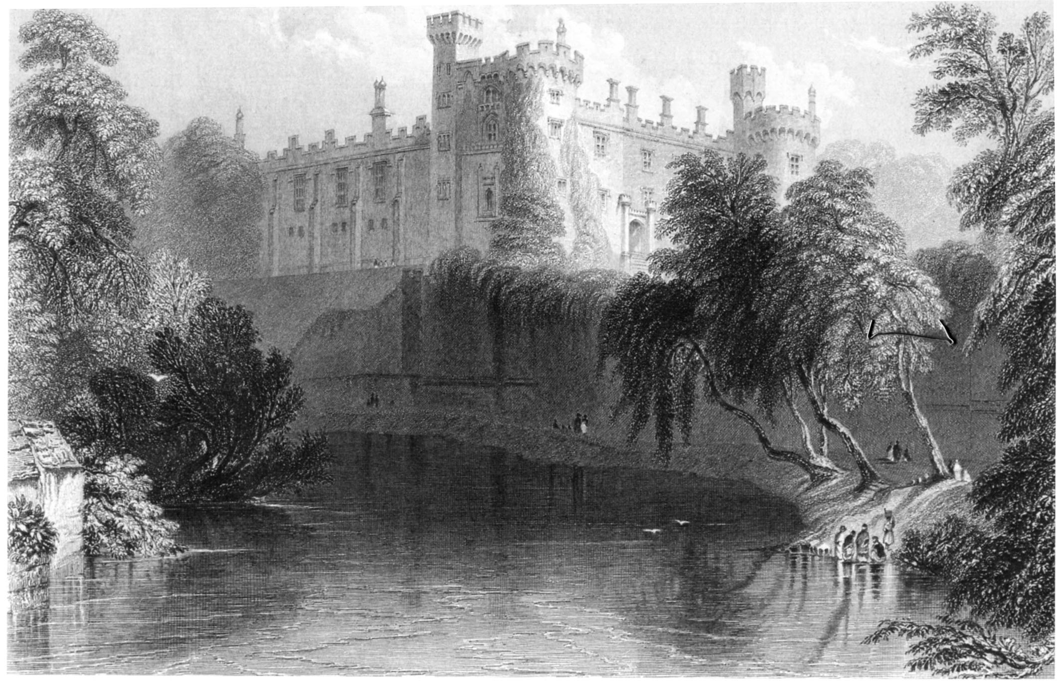 Kilkenny Castle, Bartlett, W. H. (William Henry), 1809-1854.